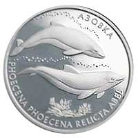 Coin of Ukraine